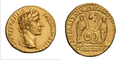 Aureus of August RIC I Augustus 206